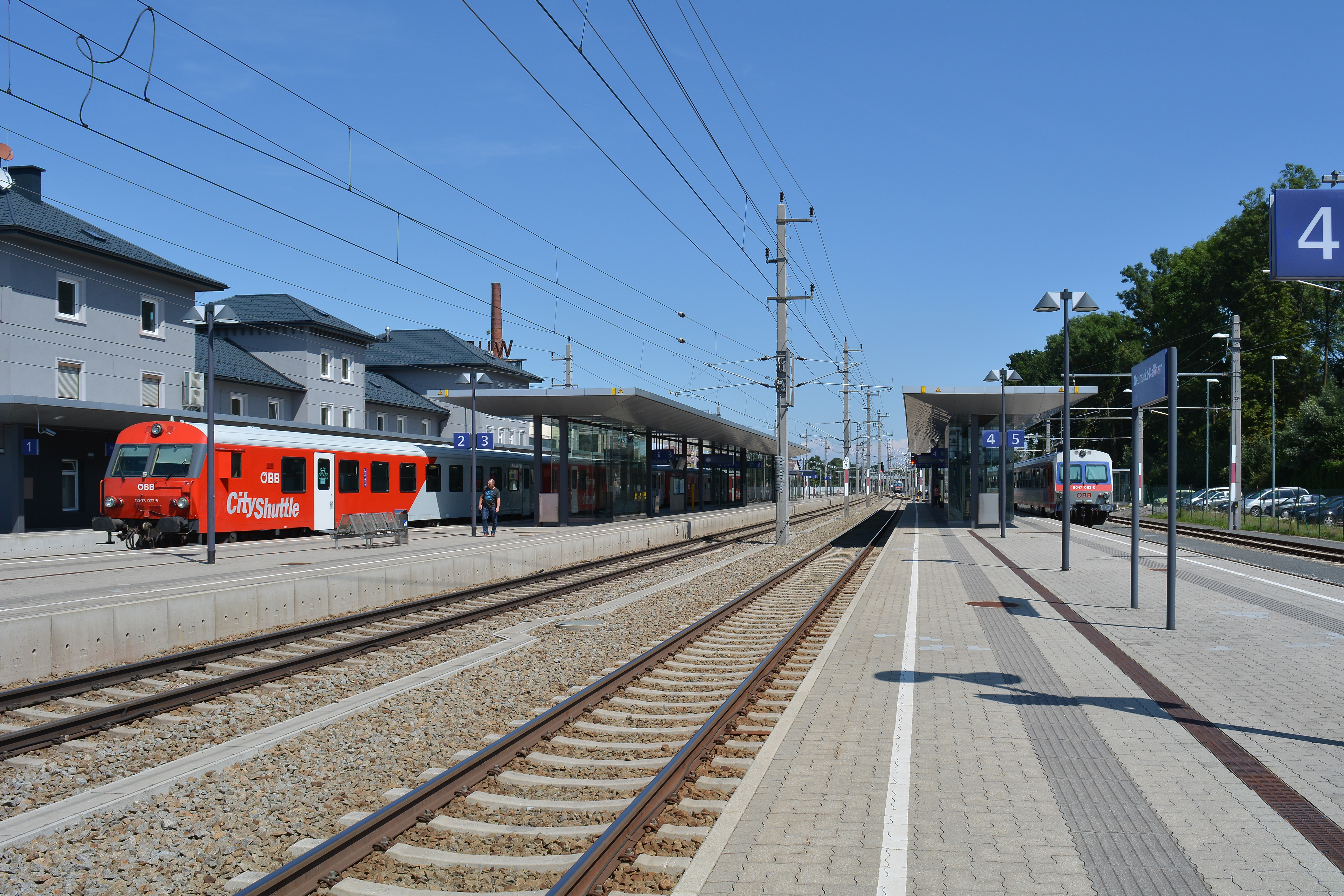 Train station Neumarkt-Kallham (Upper Austria)